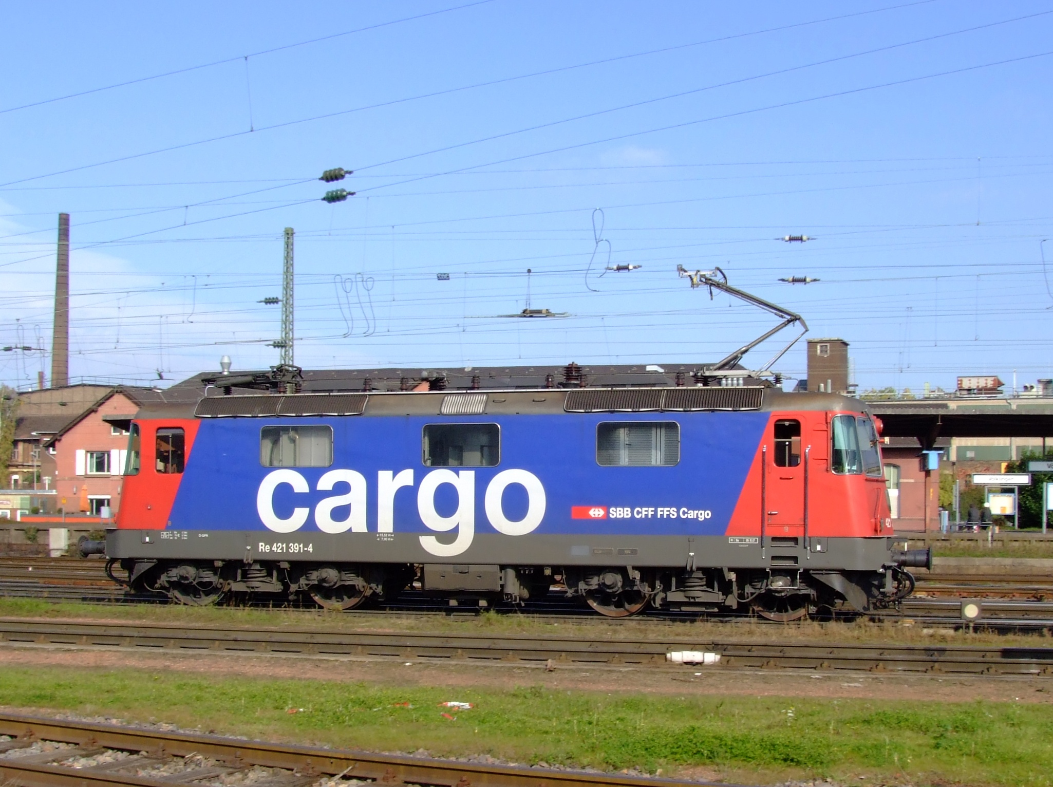 Photographed in Germany.